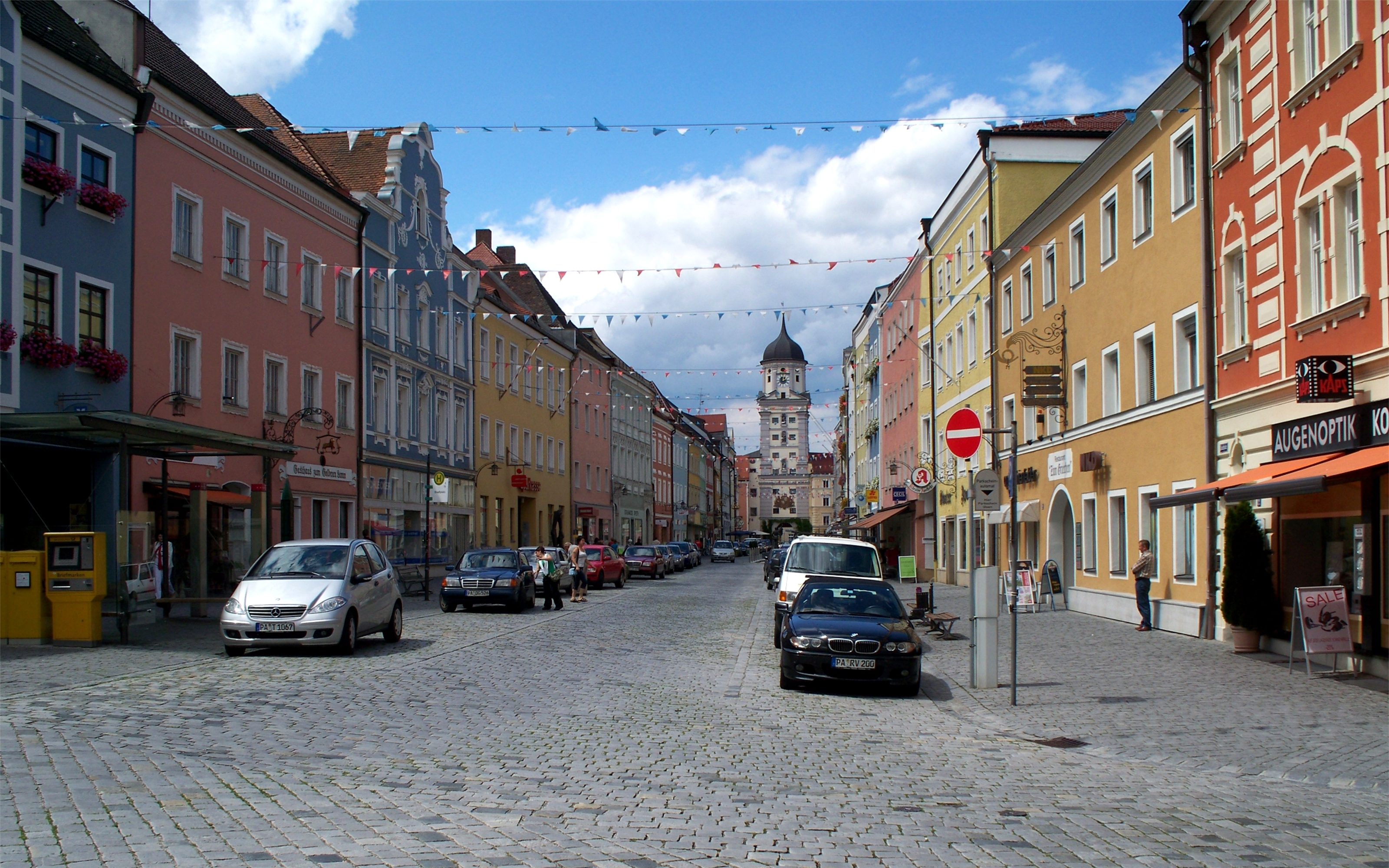 City square of Vilshofen an der Donau